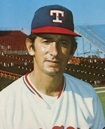 Professional baseball manager Billy Martin